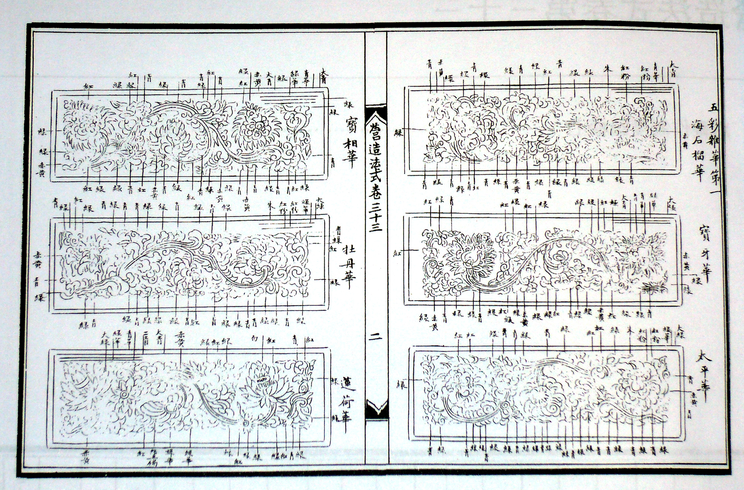 Color paint pattern in Song dynasty Yingzao Fashi